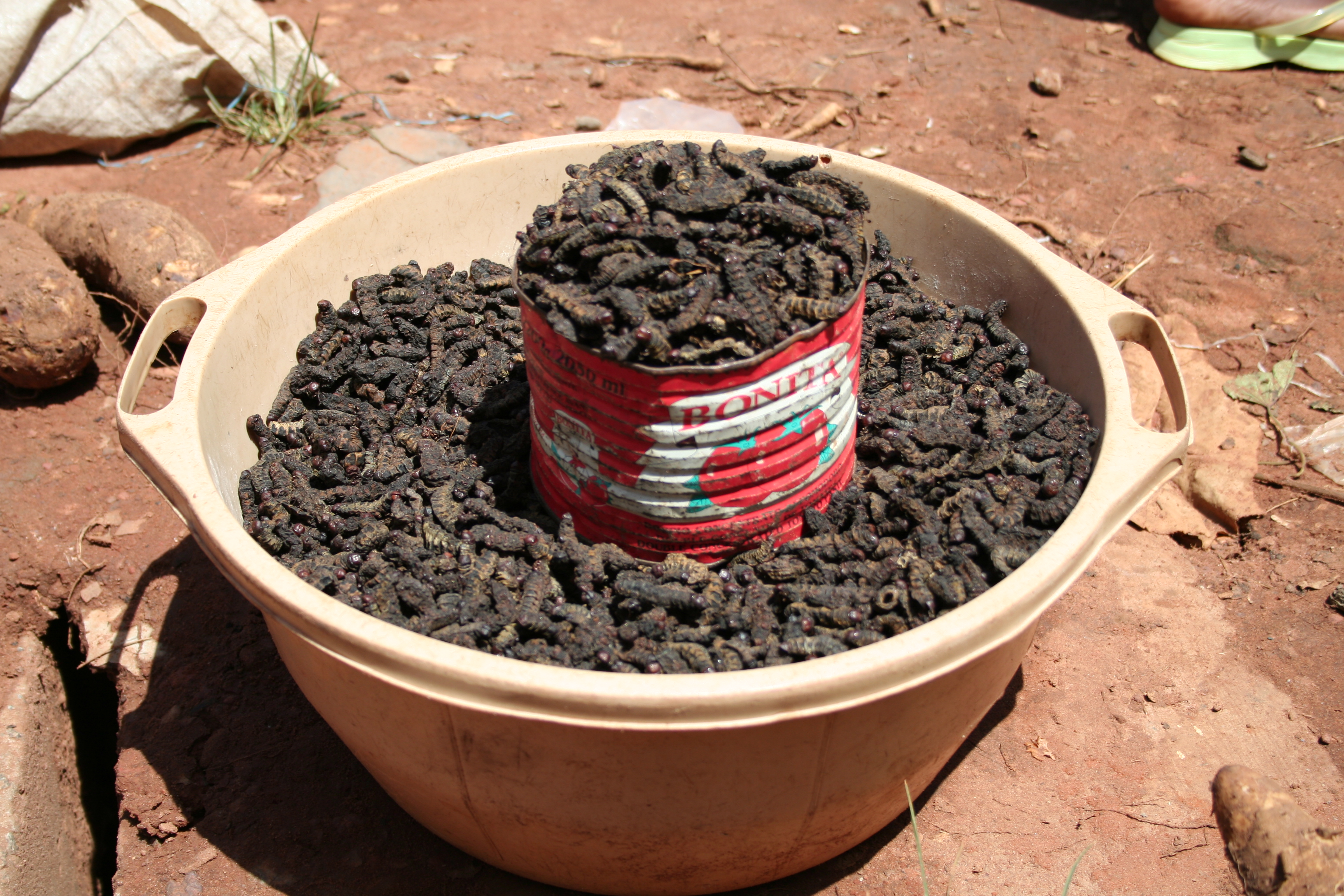 Caterpillars (possibly Cirina butyrospermi) on the market of Orodara, Burkina Faso